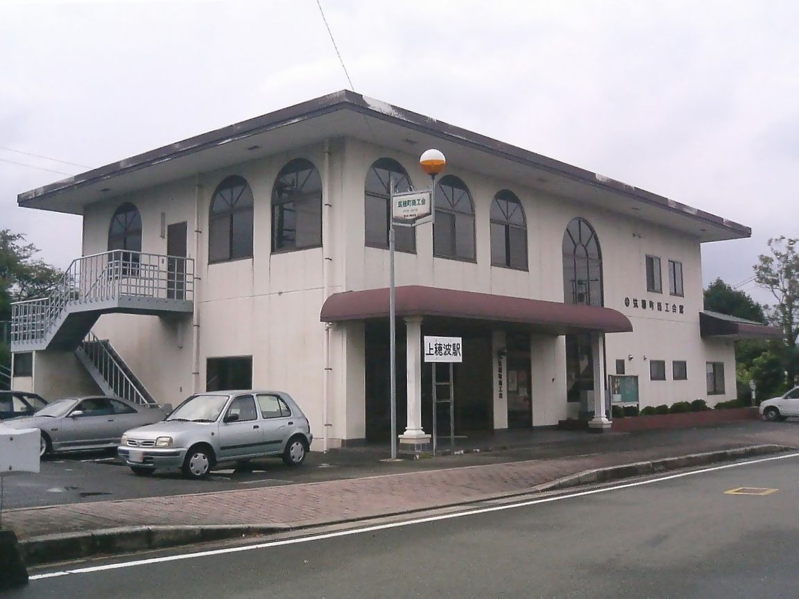 Kamihonami Station, Chikuho Main Line, Kyushu Railway Company.